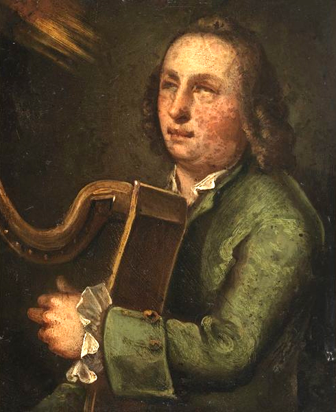 Portrait of Turlough Carolan, from R.B. Armstrong "The Irish and Highland Harps", Edinburgh, David Douglas, 1904.